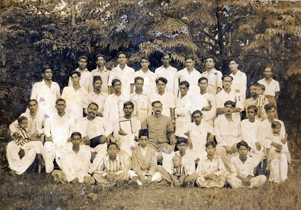 Jasim Uddin received reception at Rajenra College, Faridpur after the selection of "Kabar" poem by the University of Calcutta while he was a student of I. A class in 1928